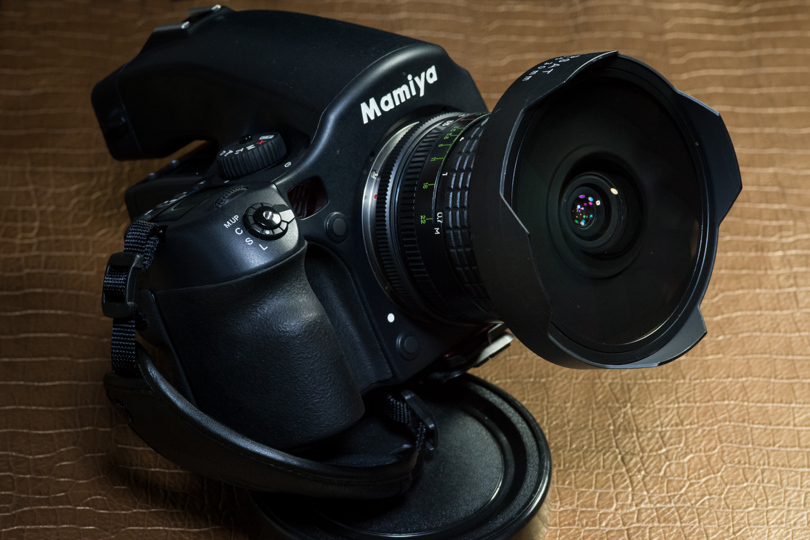 Mamiya 645AFD camera with Arsat 30mm lens